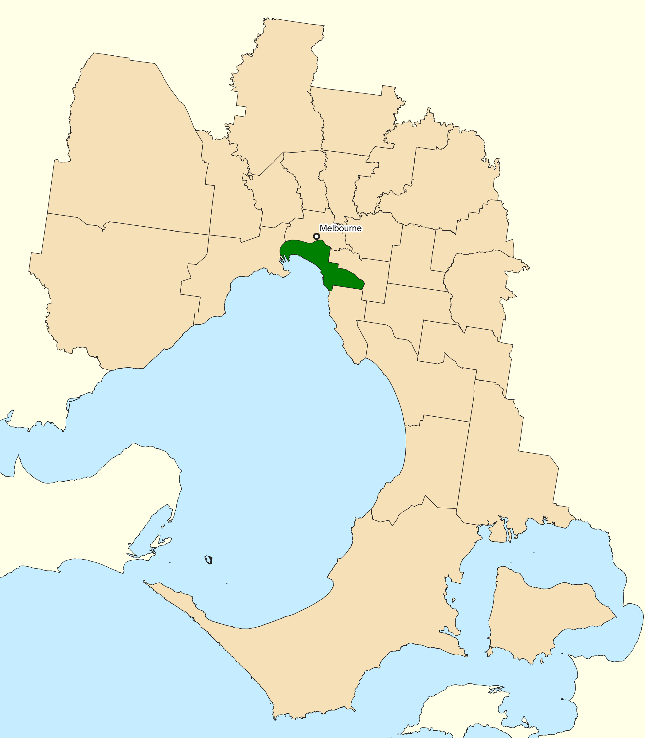 Location of the Australian federal electoral division of Macnamara (dark green) in Greater Melbourne, Victoria as of the 2019 Australian federal election. Incorporates or developed using Administrative Boundaries ©PSMA Australia Limited licensed by the Commonwealth of Australia under Creative Commons Attribution 4.0 International licence (CC BY 4.0).